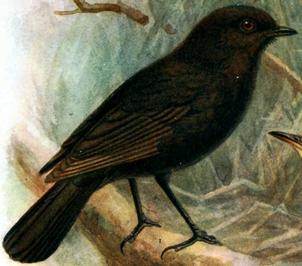 Black Robin, Petroica traversi